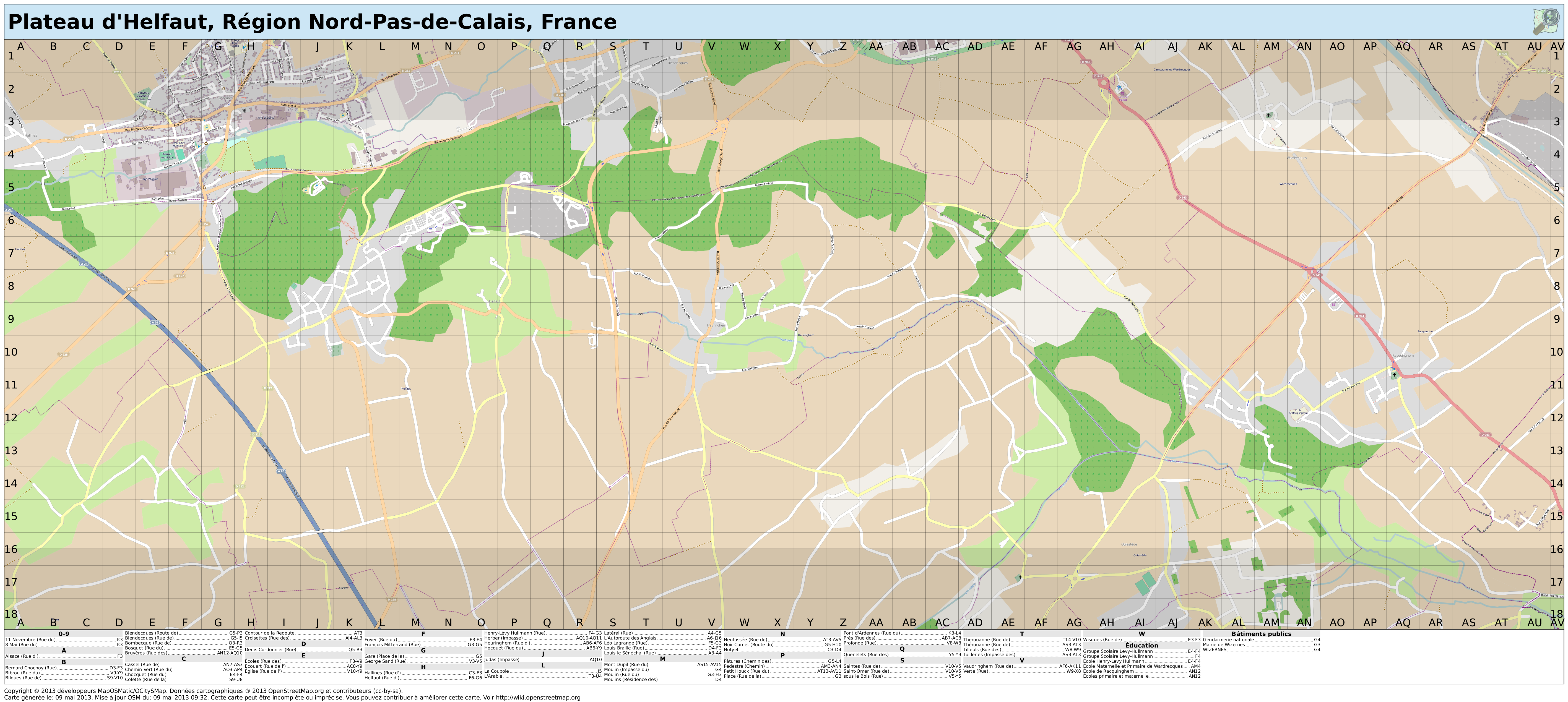 Map of the Helfaut tray (Plateau d'Helfaut), Containing several notable sites (remarkable geological site, nature reserves become voluntary regional nature reserve (Natura 2000 site) Acid soils and perched aquifers (partly drained and degraded) in an ecological and landscape context of floodplain rather limestone.